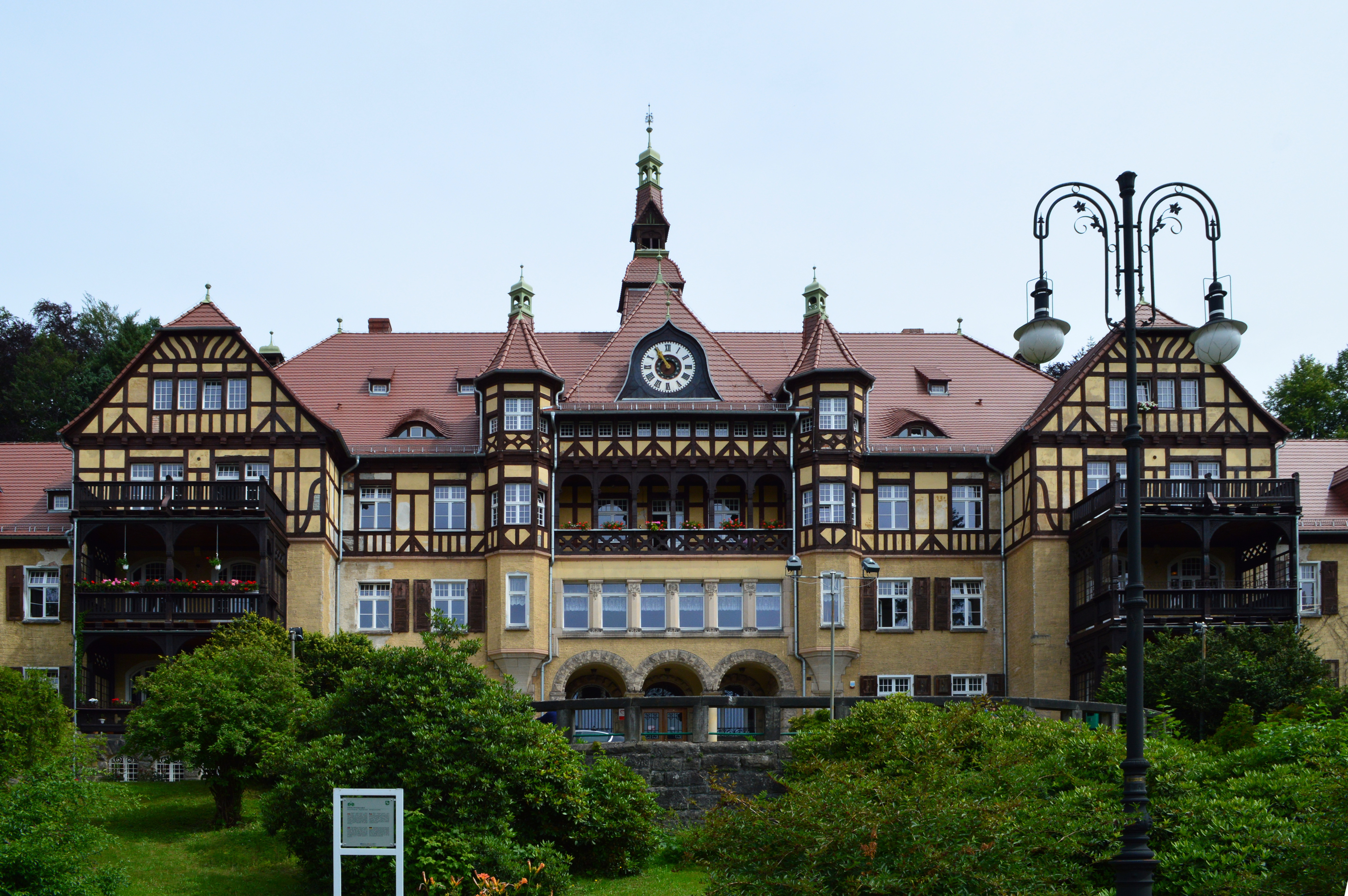 Kowary is a town in the Lower Silesian region of south-west Poland, just under 100 kilometres from the regional capital of Wrocław. Close to Kowary and set high in the mountains is the impressive “Wysoka Łąka” (pl) hospital/sanatorium built at the end of the nineteenth century and boasting distinctive Art Nouveau features. On the outskirts of Kowary, at 4 Wojska Polskiego, is a contemporary building of the period which was formerly the “Matter Hotel”, Alfons Matter being the renowned developer of the district of Cieszyn known as “Matterówka”. (As a side note, Alfons was the father-in-law of Andrzej Grodyński whose first wife died at only thirty years of age from tuberculosis and the sanatorium at Kowary specialized in the treatment of this ‘disease’ previously known as “consumption”.)The Scotch Mist Gallery contains many photographs of historic buildings, monuments and memorials of Poland.